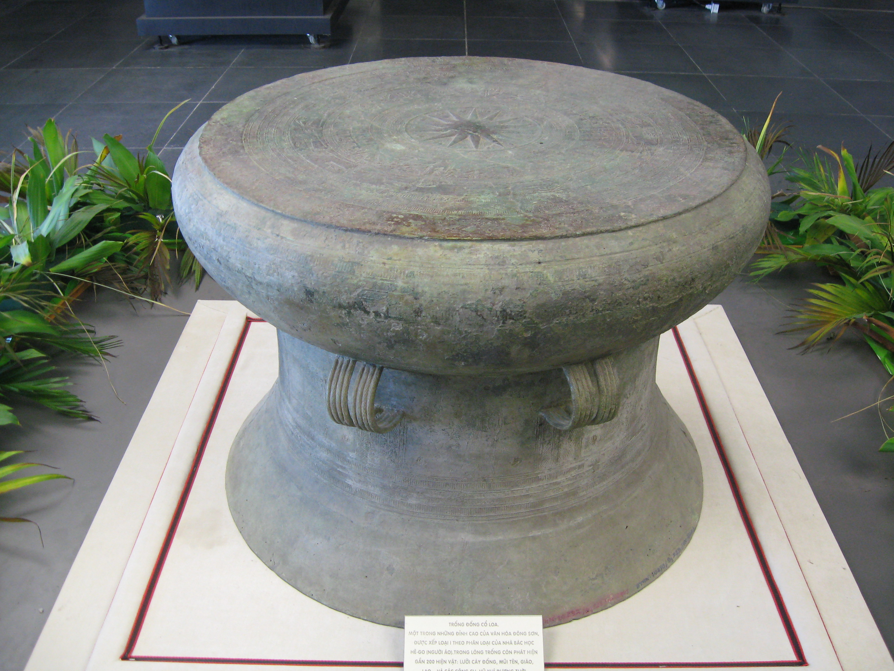 Co Loa bronze drum at the Hanoi Museum